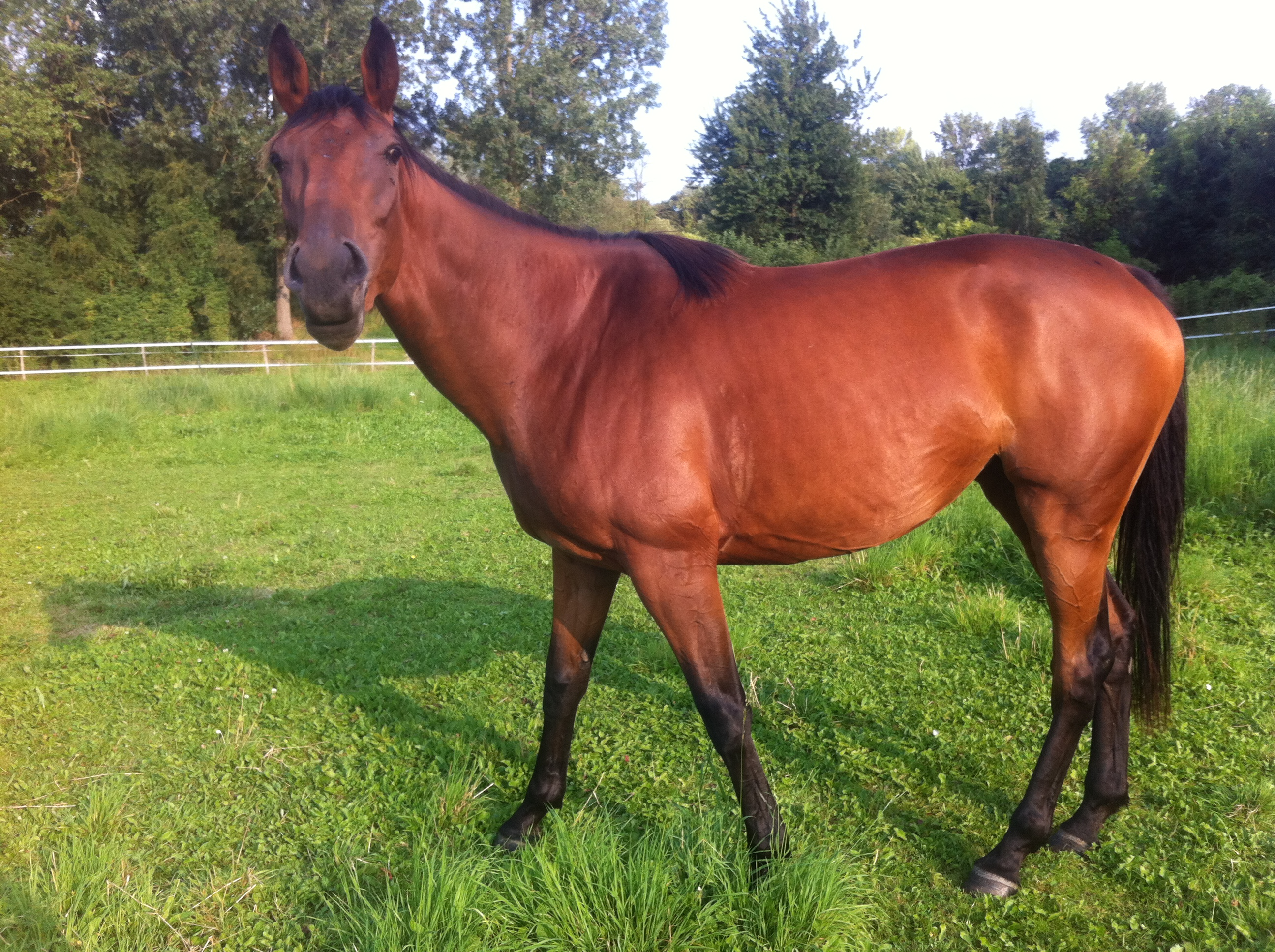 Ushuaia Bleue, AQPS mare born in 2008, propriety of Chloé Lepan